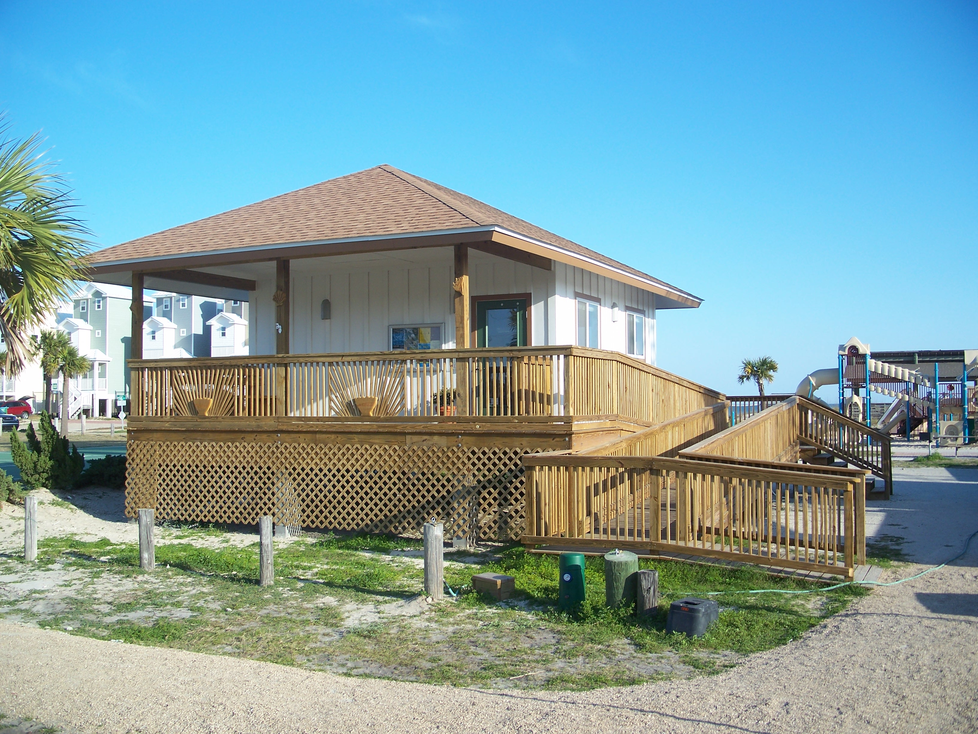 St. George Island (Florida): Cape St. George Light: The visitor center/museum